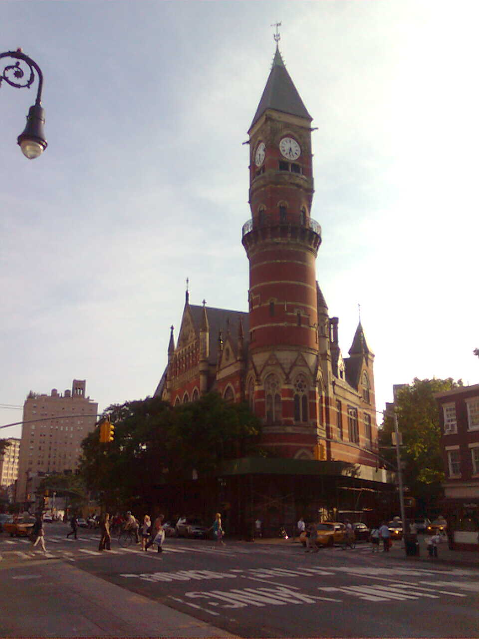 Third Judicial District Courthouse